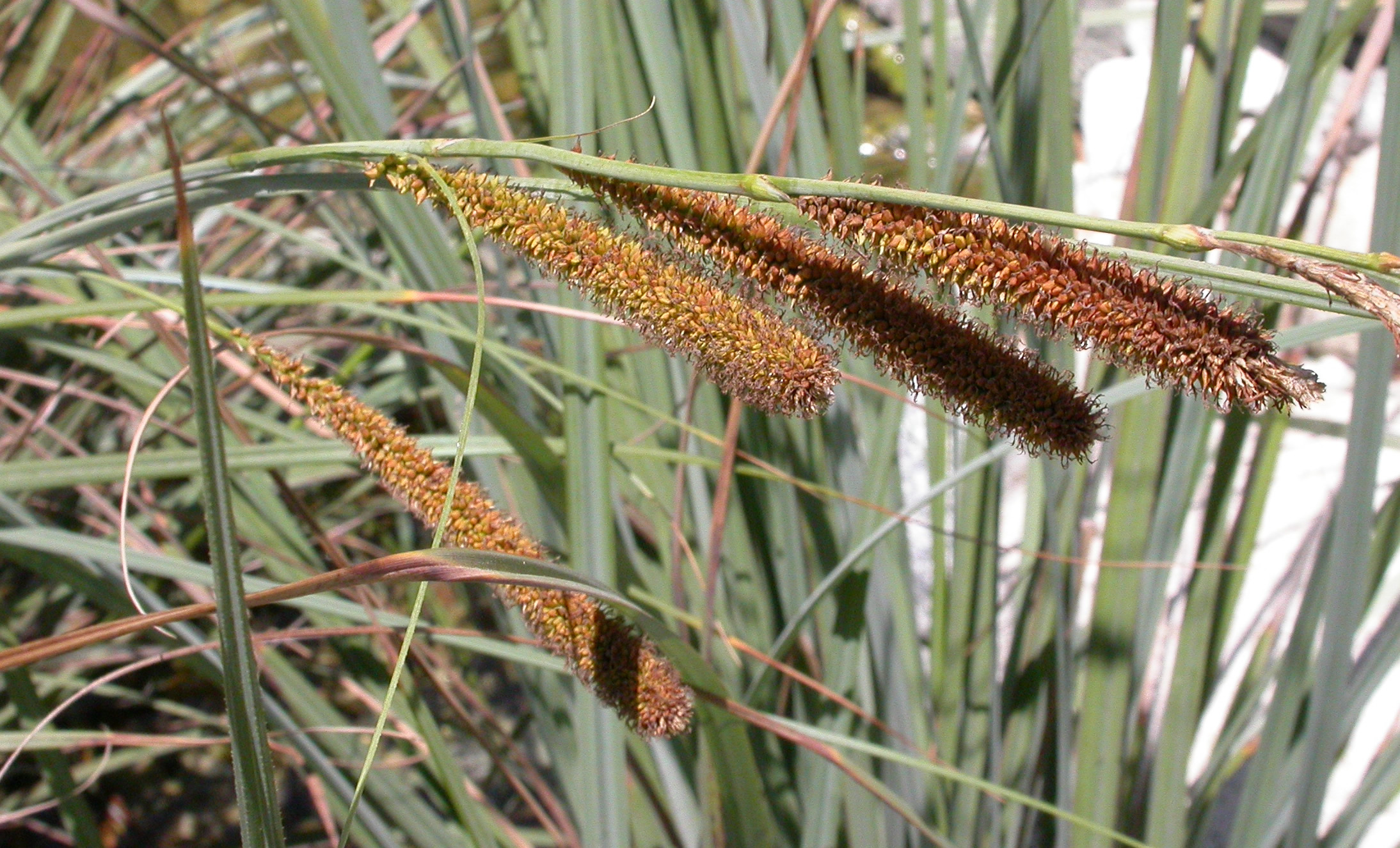 Photographed at BioTrek. Contributed and © by Curtis Clark. Licensed as noted.